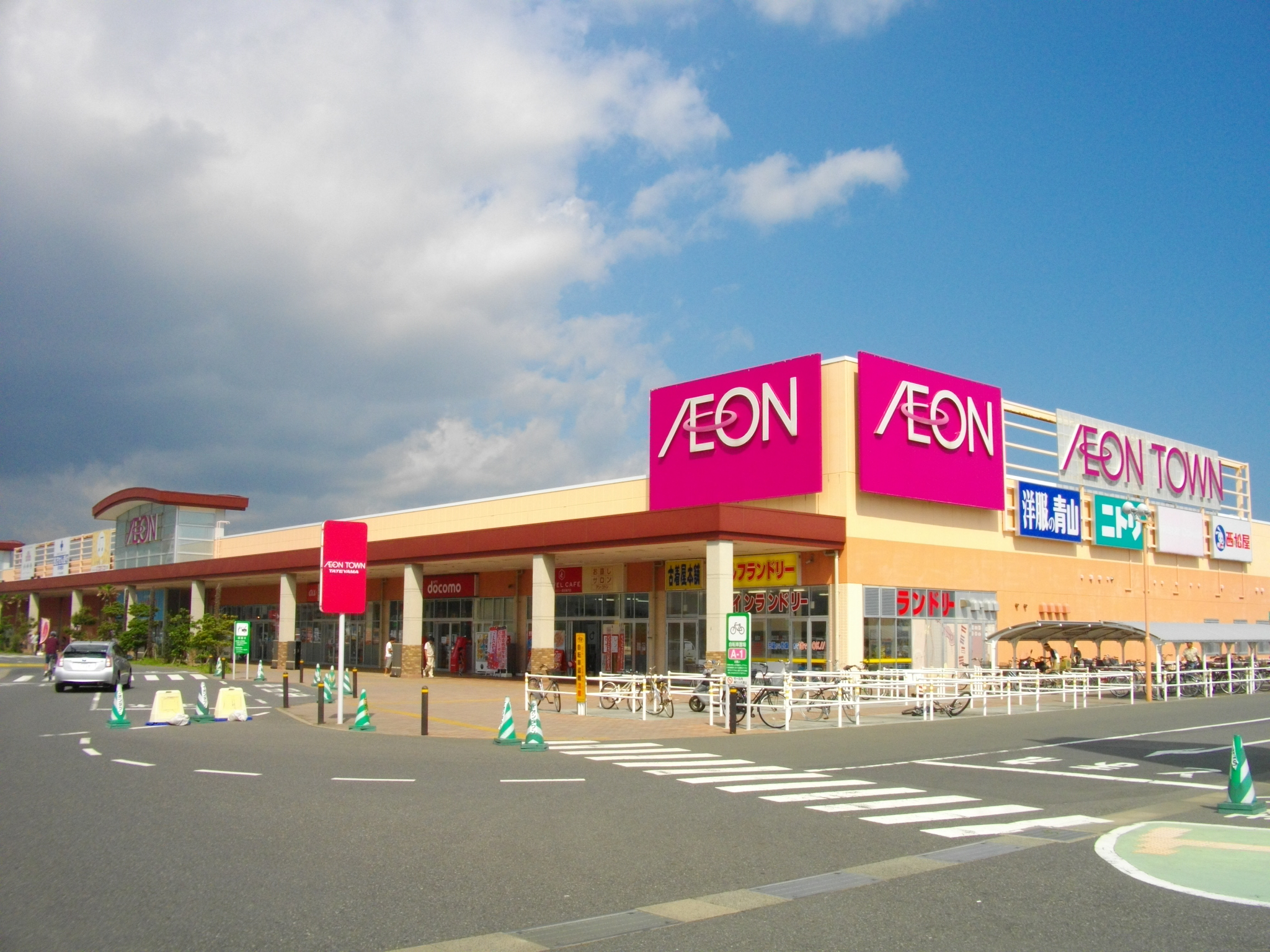 AEON Town Tateyama